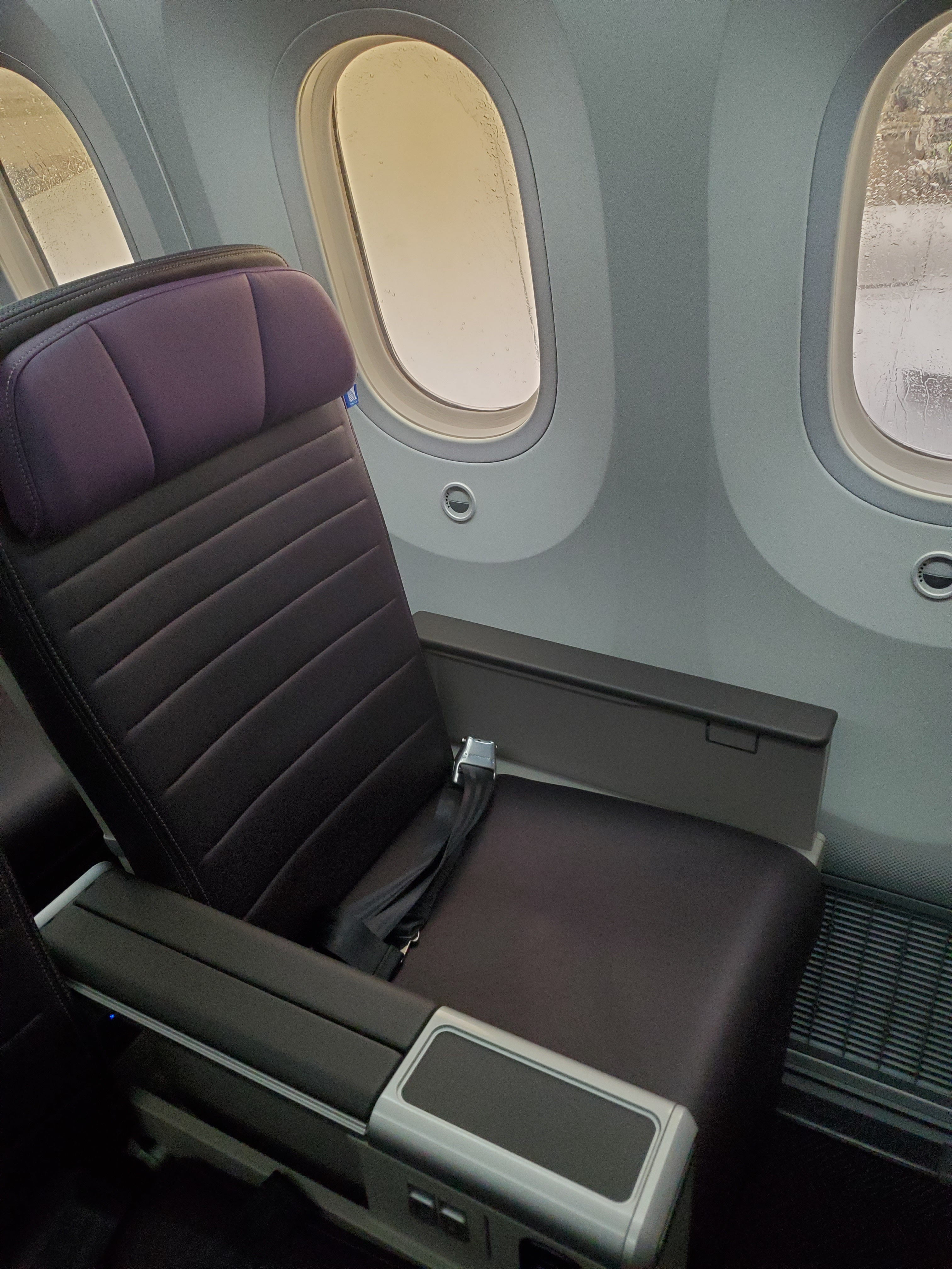 Image shows a United Premium Plus seat on a Boeing 787-8 aircraft configured with new United Polaris and Premium Plus seats.